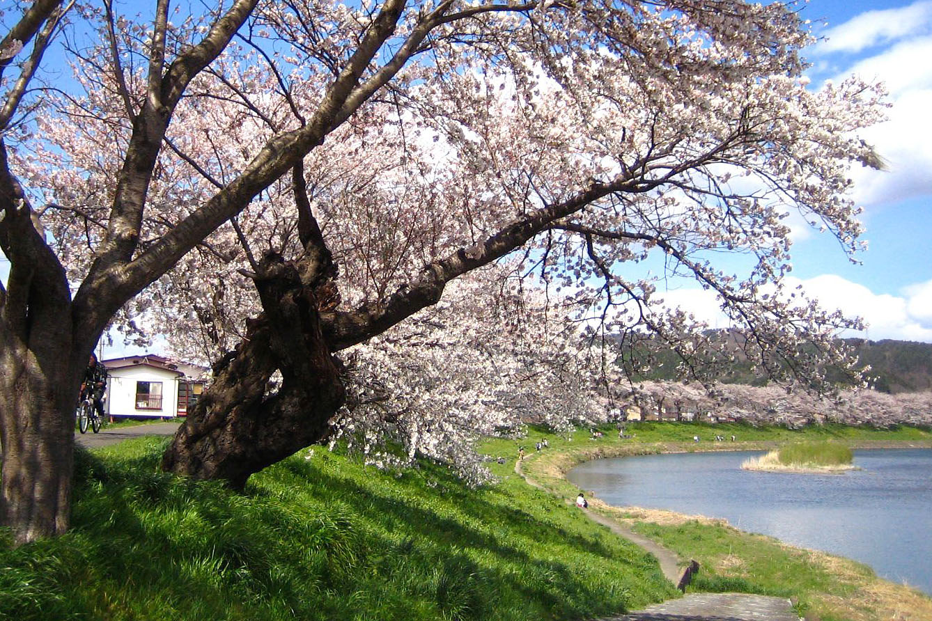 Hitome-senbon-zakura ("thousand cherry blossom trees at one glance") along the Shiroishi River